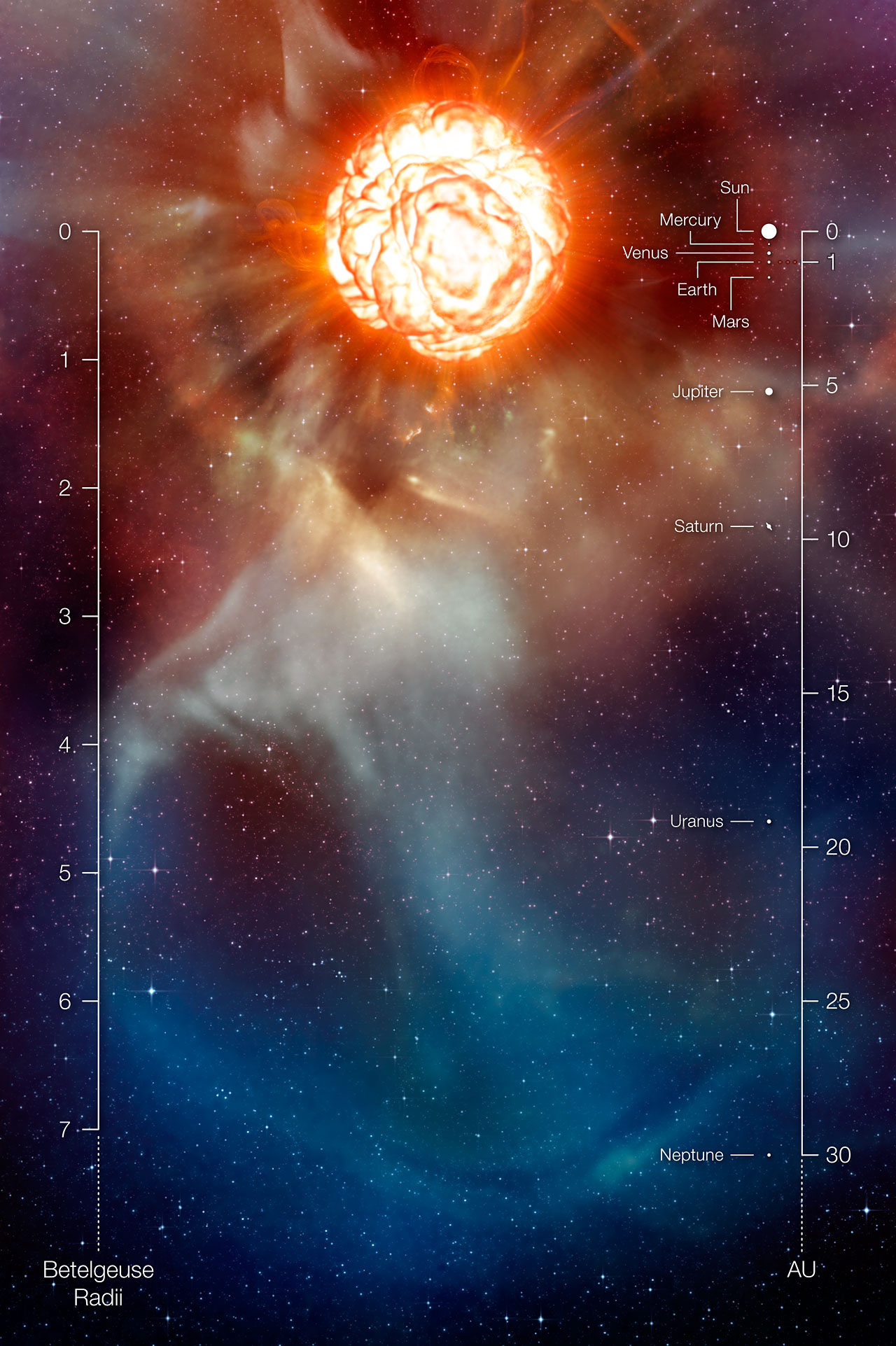 "This artist’s impression shows the supergiant star Betelgeuse as it was revealed thanks to different state-of-the-art techniques on ESO’s Very Large Telescope, which allowed two independent teams of astronomers to obtain the sharpest ever views of the supergiant star Betelgeuse. They show that the star has a vast plume of gas almost as large as our Solar System and a gigantic bubble boiling on its surface. These discoveries provide important clues to help explain how these mammoths shed material at such a tremendous rate. The scale in units of the radius of Betelgeuse as well as a comparison with the Solar System is also provided."